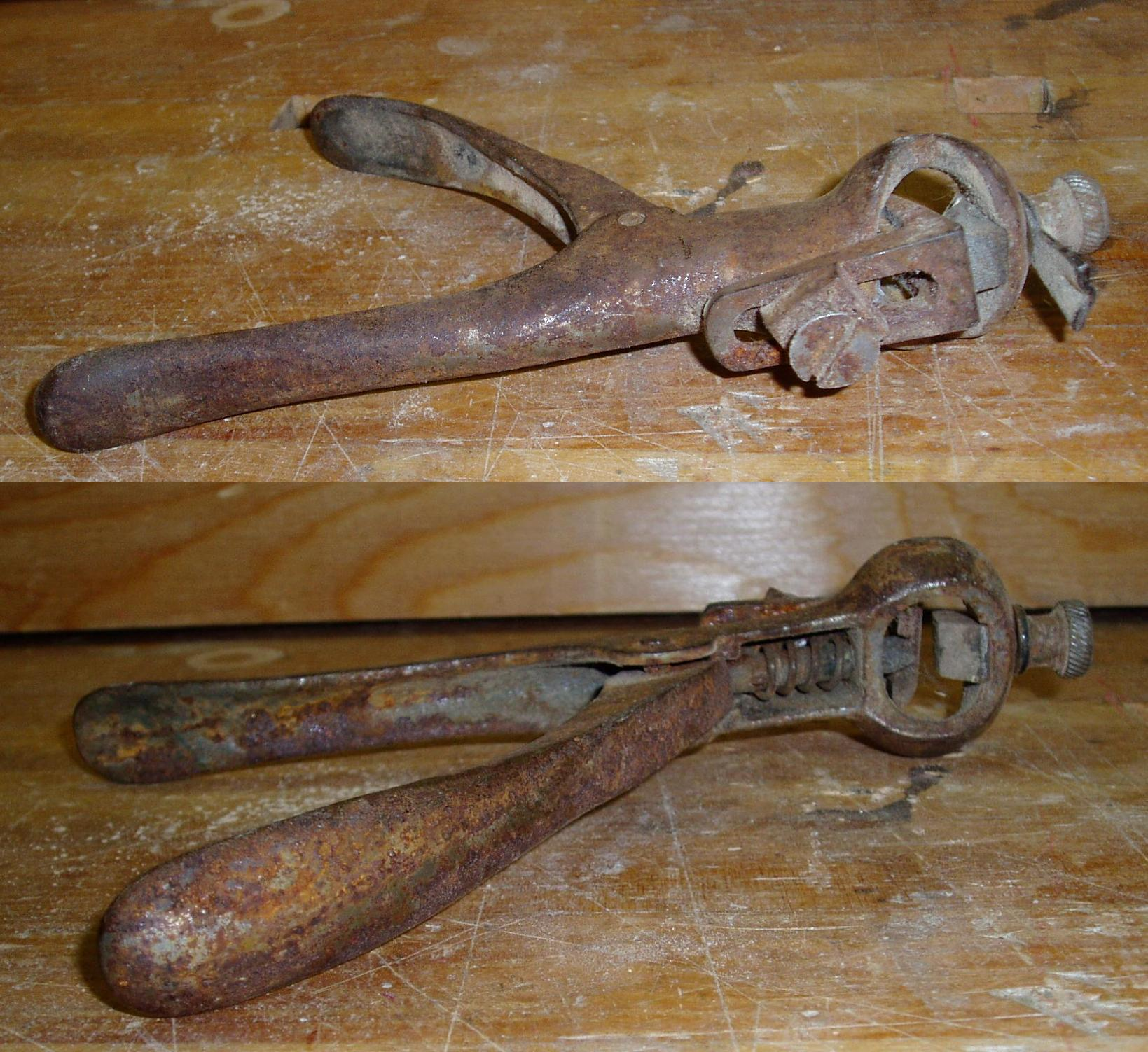 Picture of cabinetmaker's saw set taken 20 September, 2005 by Luigi Zanasi (myself) on my workbench using a Olympus digital camera.